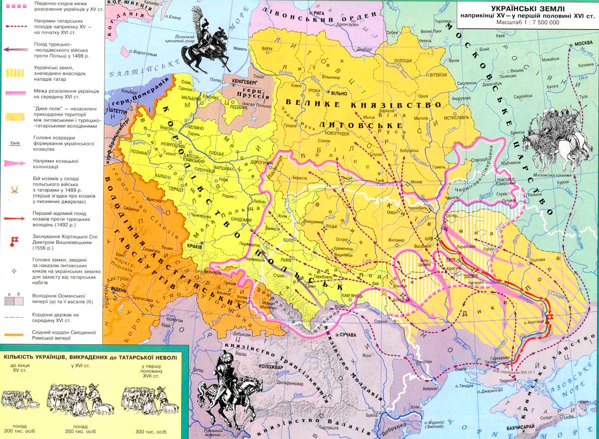 Ukrraine 15-16 century